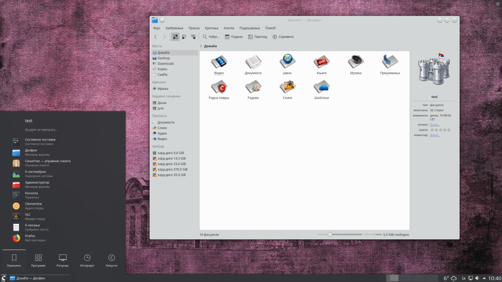 Screenshot Serbian GNU/Linux 2020